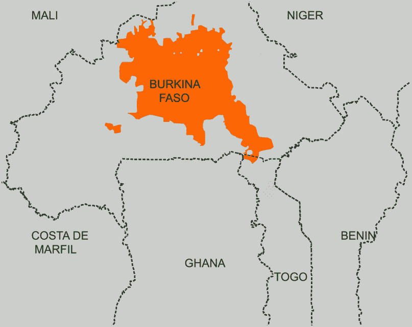 Mòoré Language Area